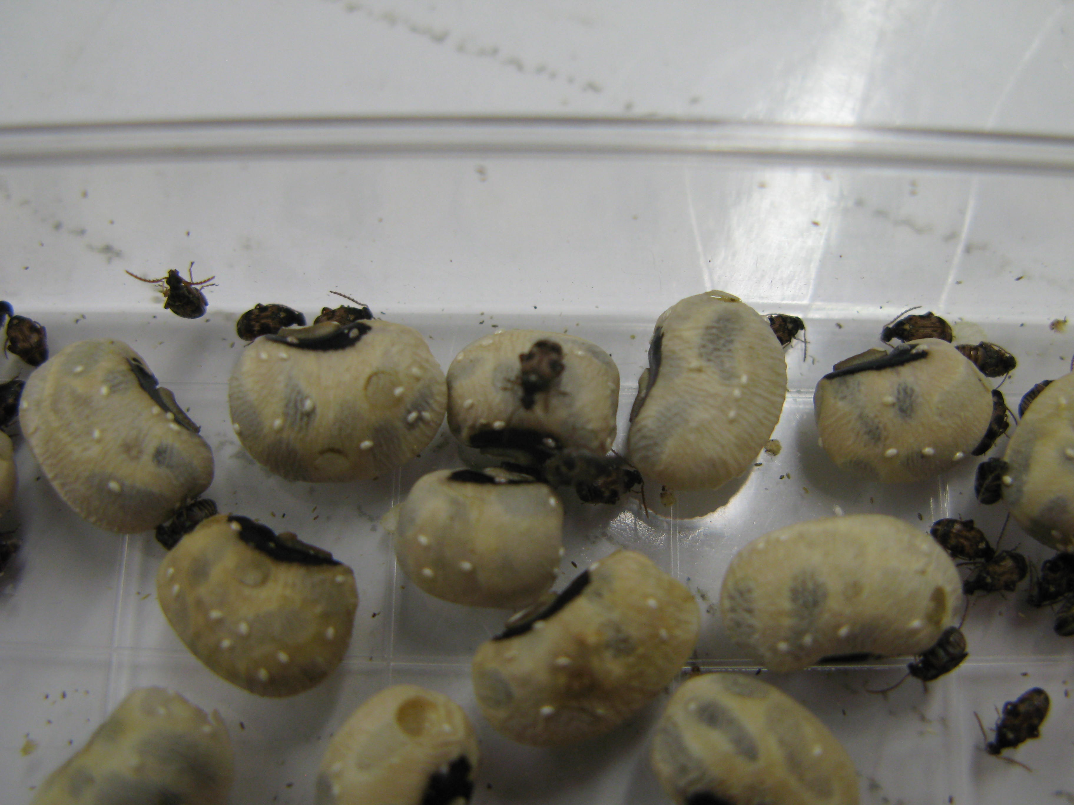 Callosobruchus maculatus on blackeyed peas